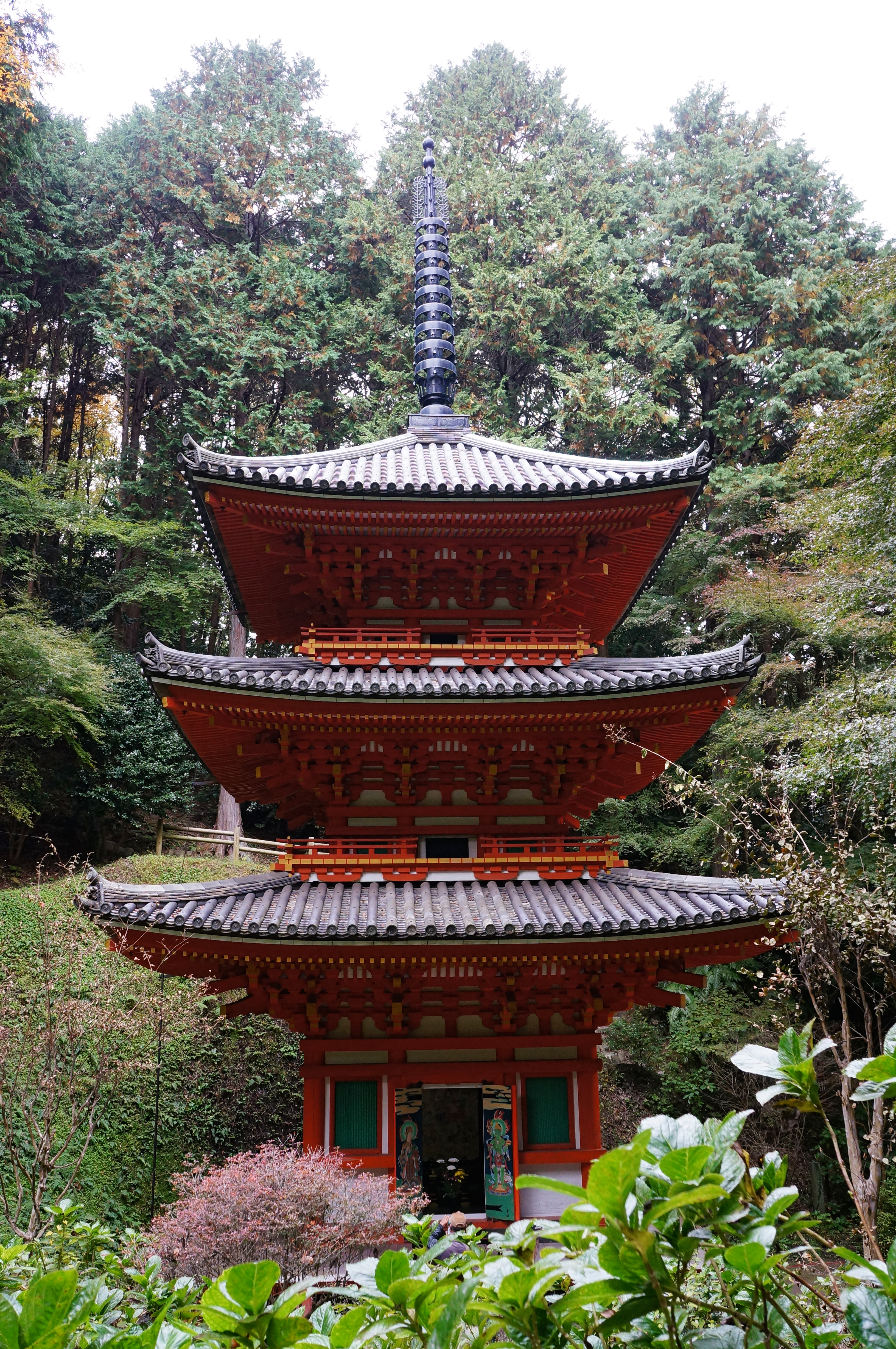 Gansen-ji in Kizugawa, Kyoto prefecture, Japan